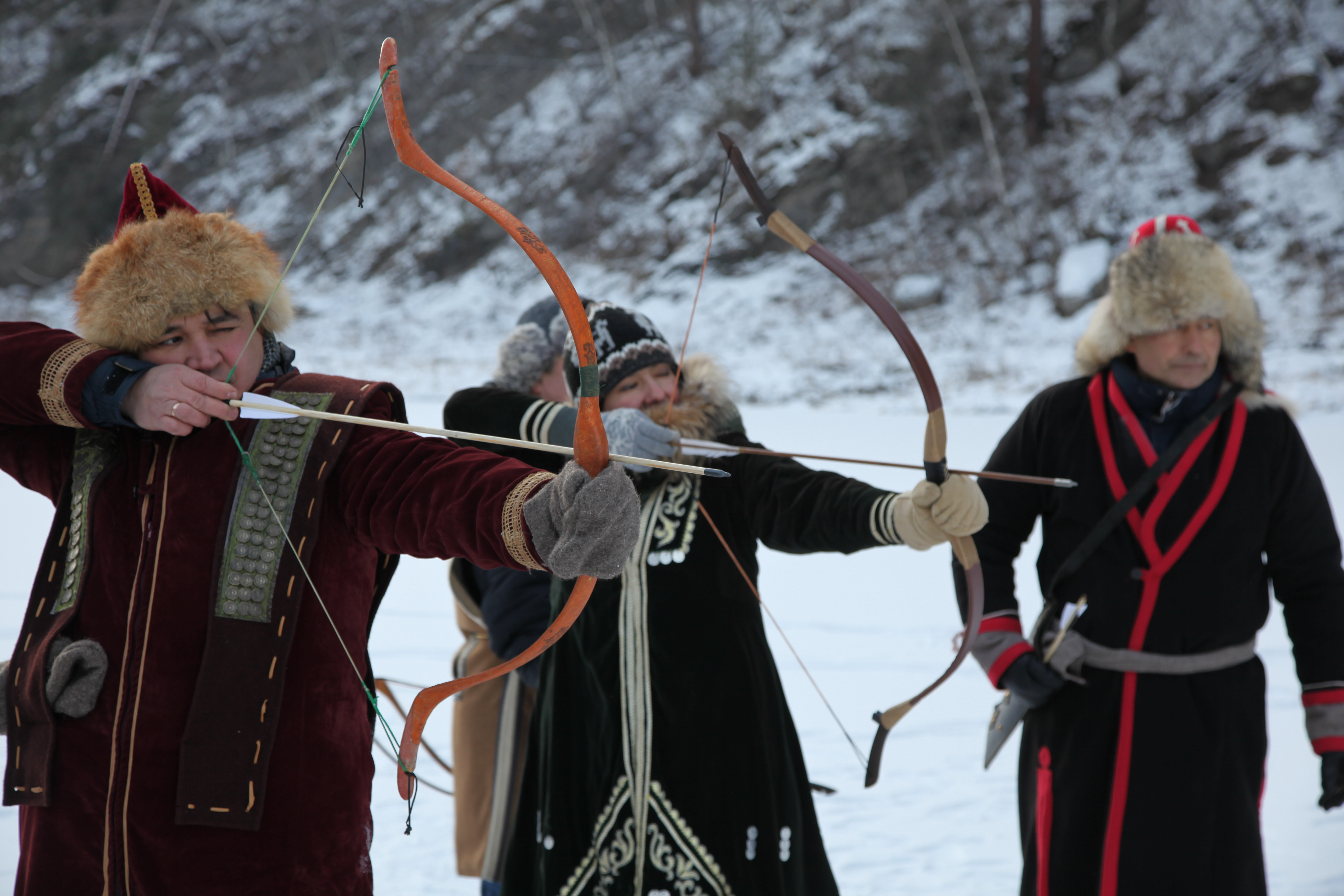 Nomadic games, Bashkort ethnical tour "Real Bashkiria", Burzyan region Republic of Bashkortostan